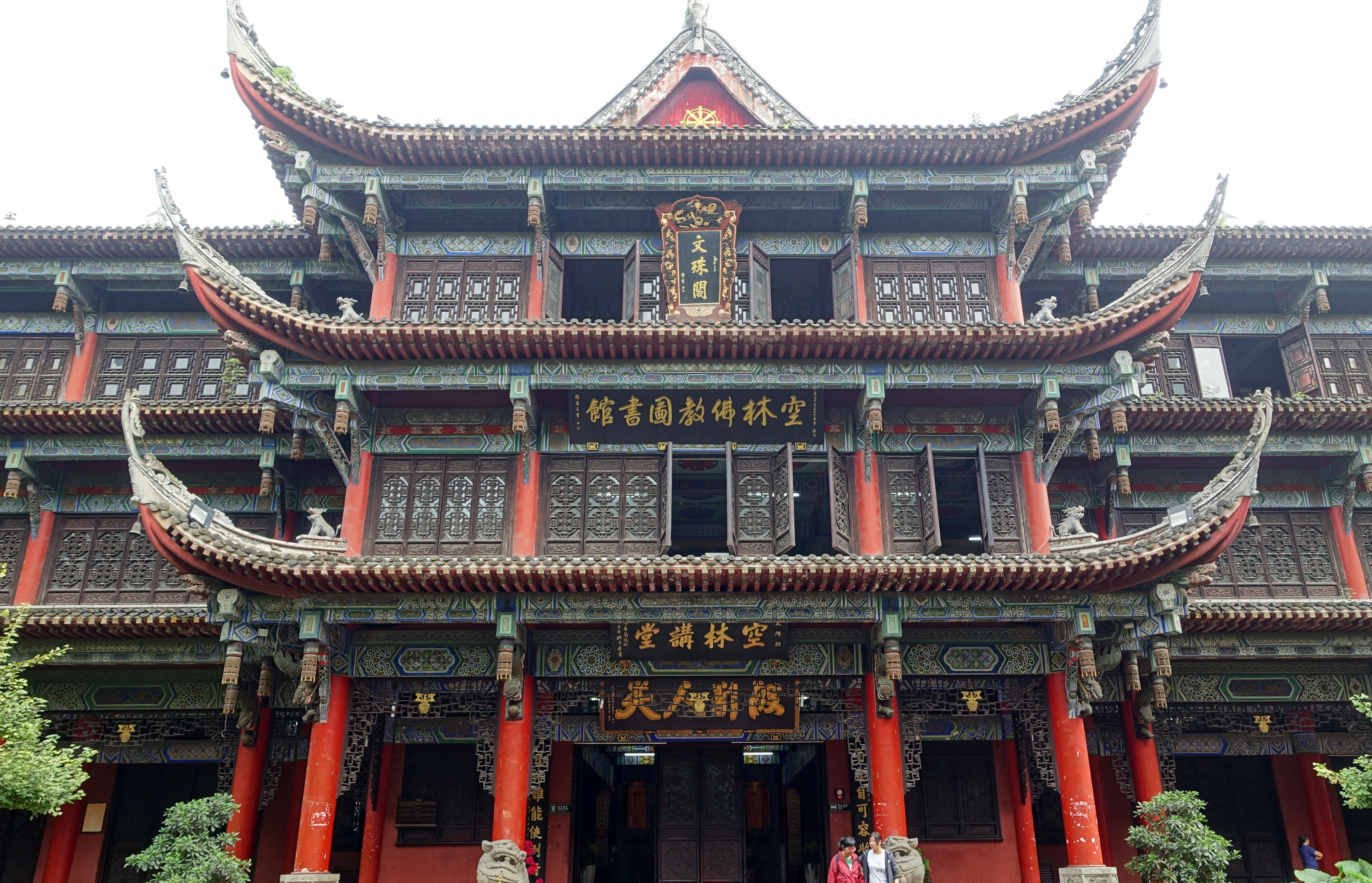 Great Hall of the Wenshu Monastery (文殊院) - Chengdu, Sichuan, China.